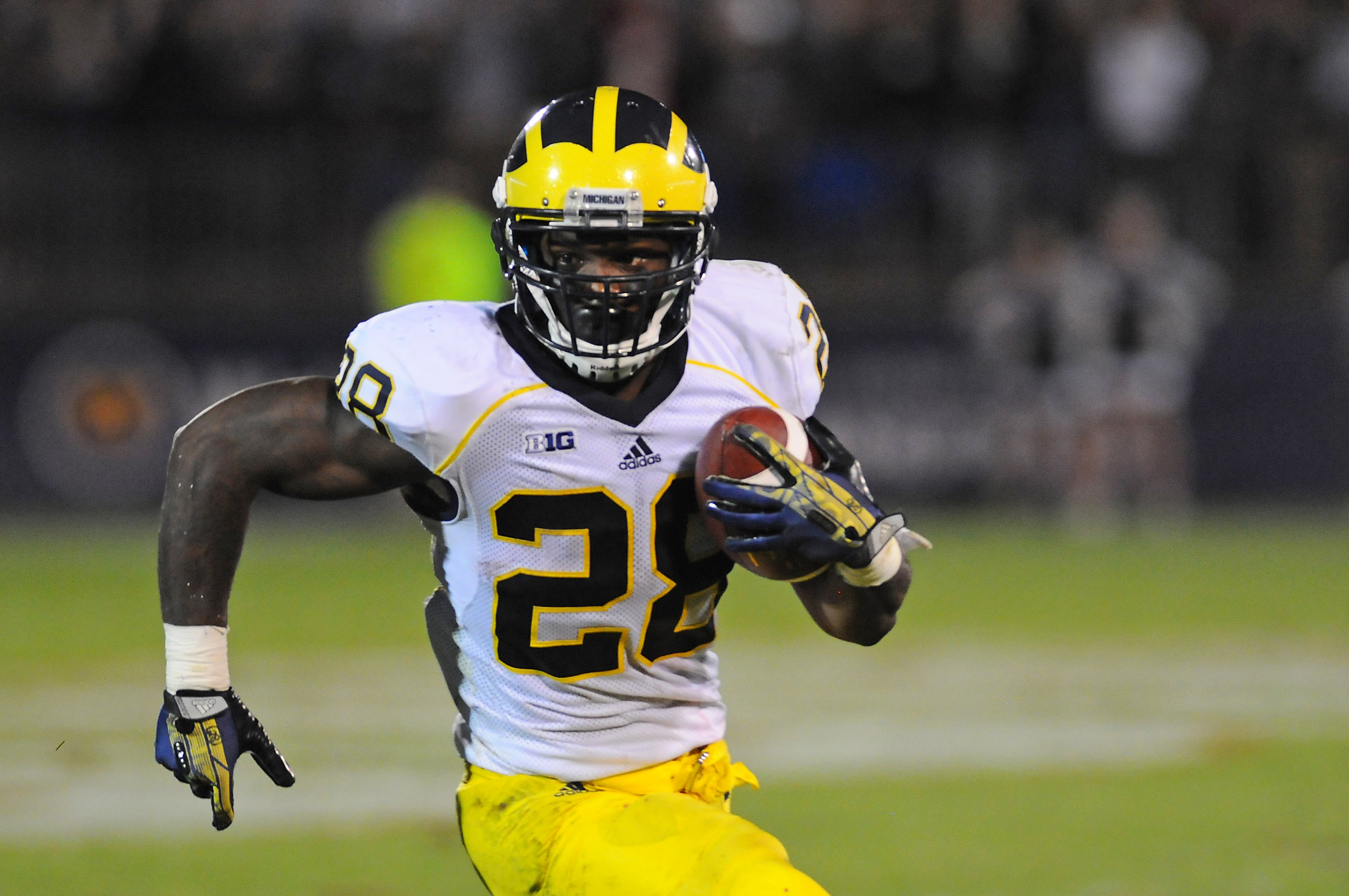 Michigan running back Fitzgerald Troussaint in 2013 (Adam Glanzman/Daily)